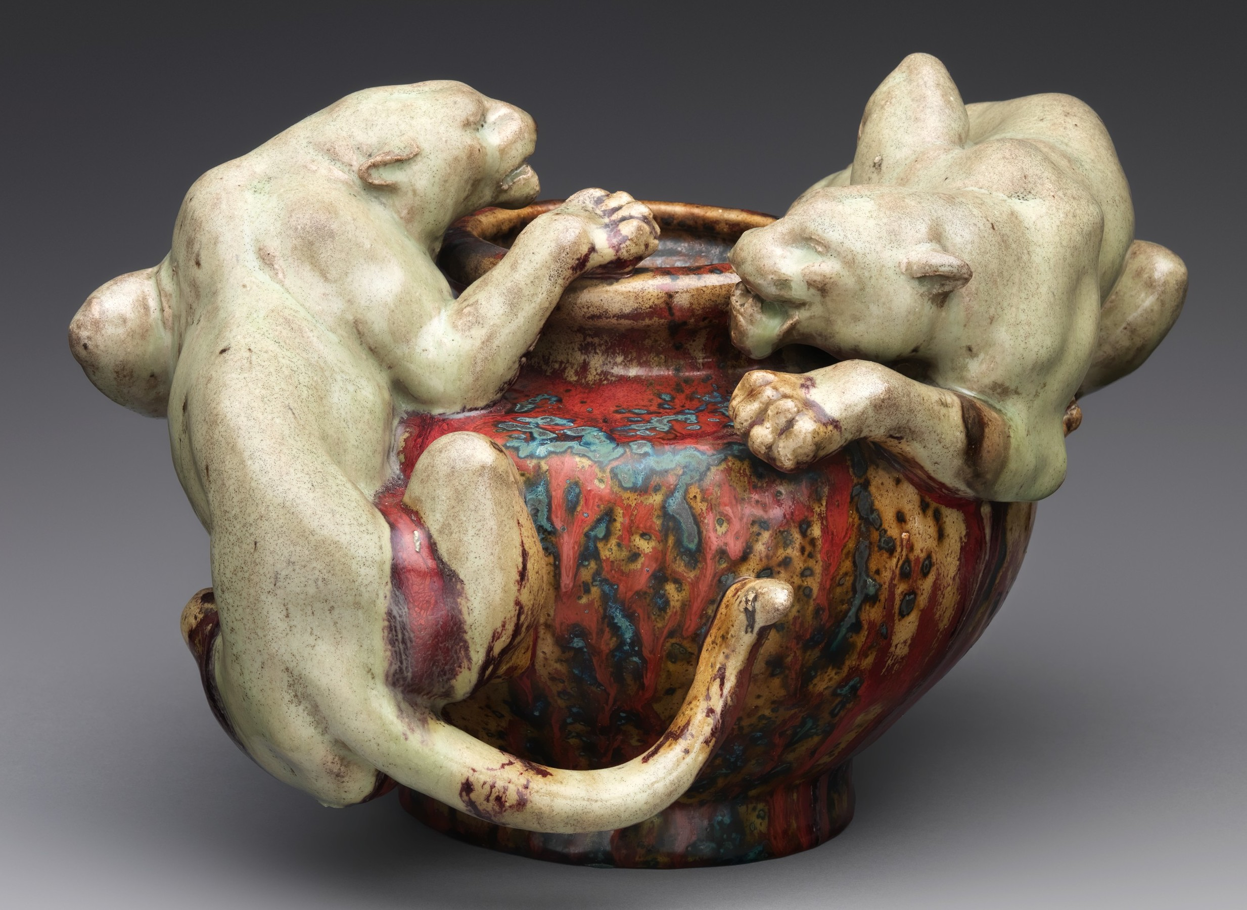 French, Bourg-la-Reine; Bowl; Ceramics-Pottery